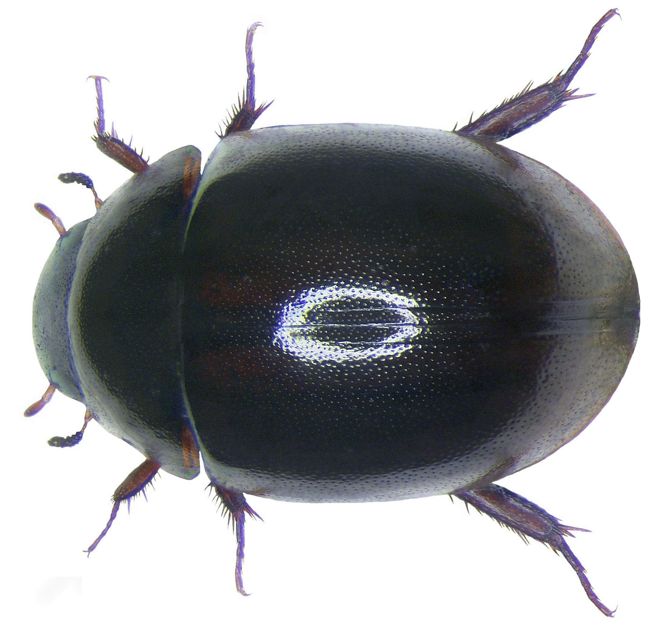 Anacaena globulus, a species of beetle in the family Hydrophilidae Familie: Hydrophilidae Grösse: 2,7-3,5 mm Verbreitung: Europa Ökologie: in kleinen stehenden und fließenden Gewässern Fundort: Germania, Oberfranken, Langenbach leg.det. U.Schmidt, 2004 Foto: U.Schmidt, 2008